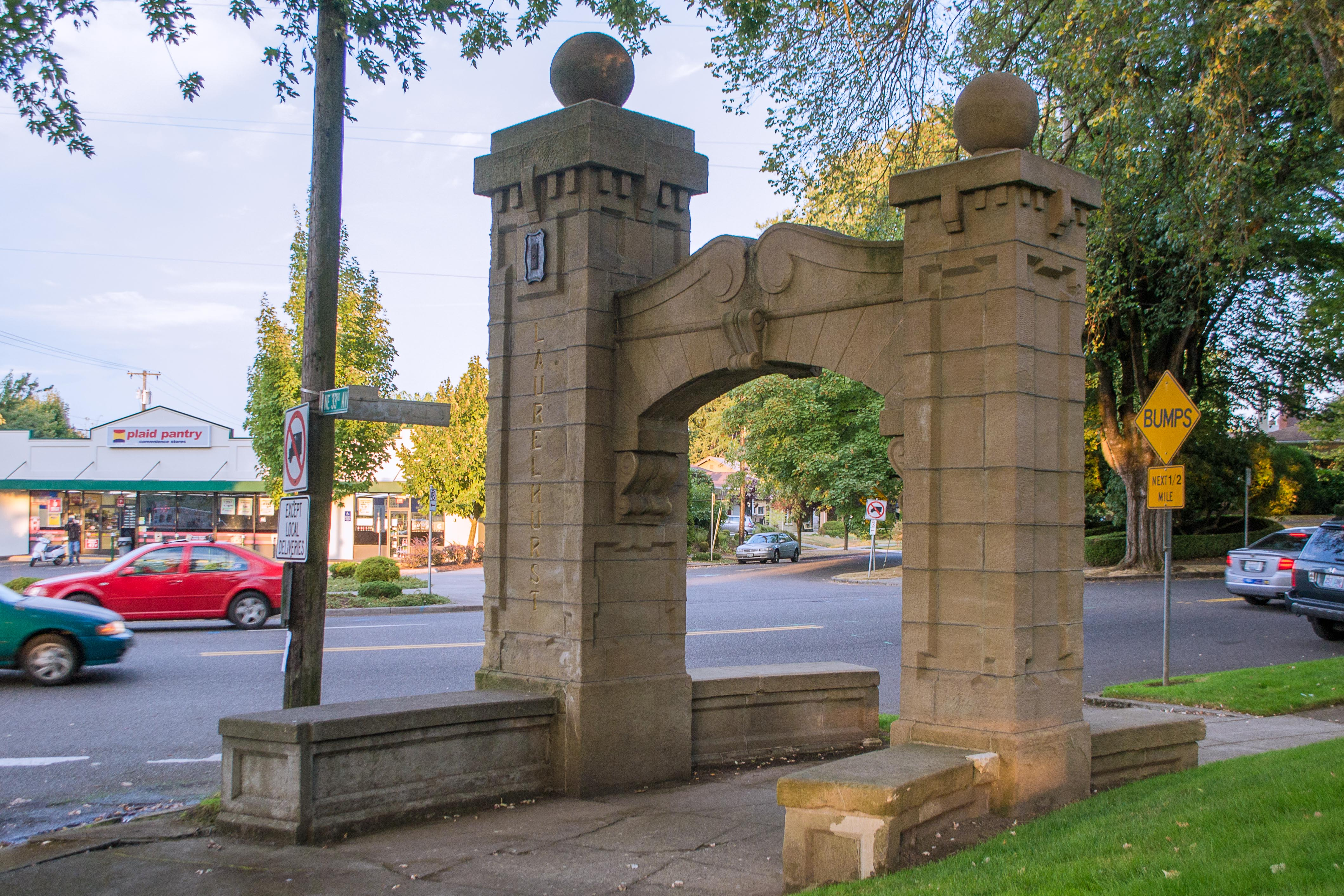 One of the 1910 Laurelhurst Neighborhood arches, here at NE 33rd and Peerless Place.